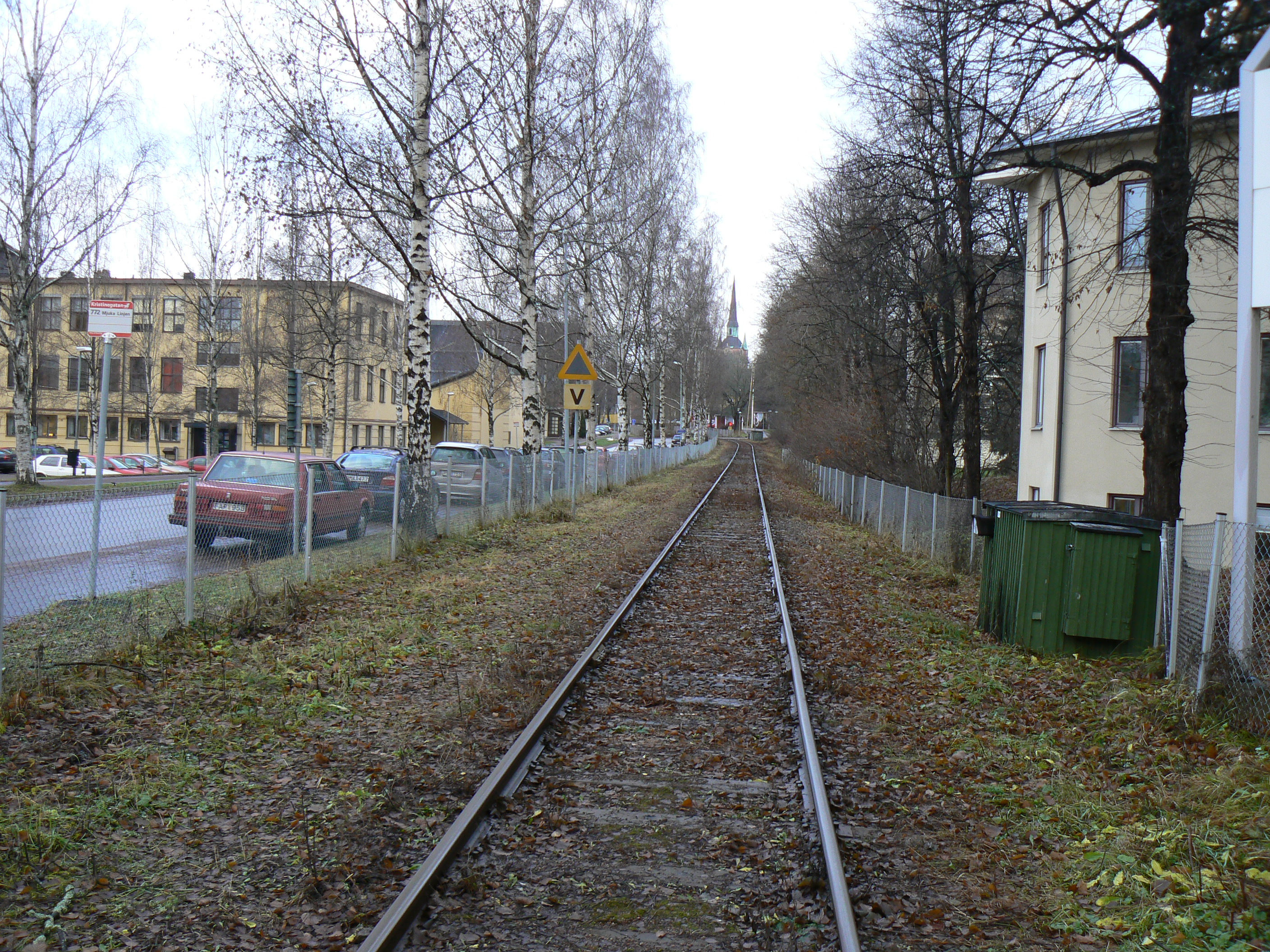 The railway Falun to Grycksbo. View from central Falun. Photo by Skvattram 2006-11-24.